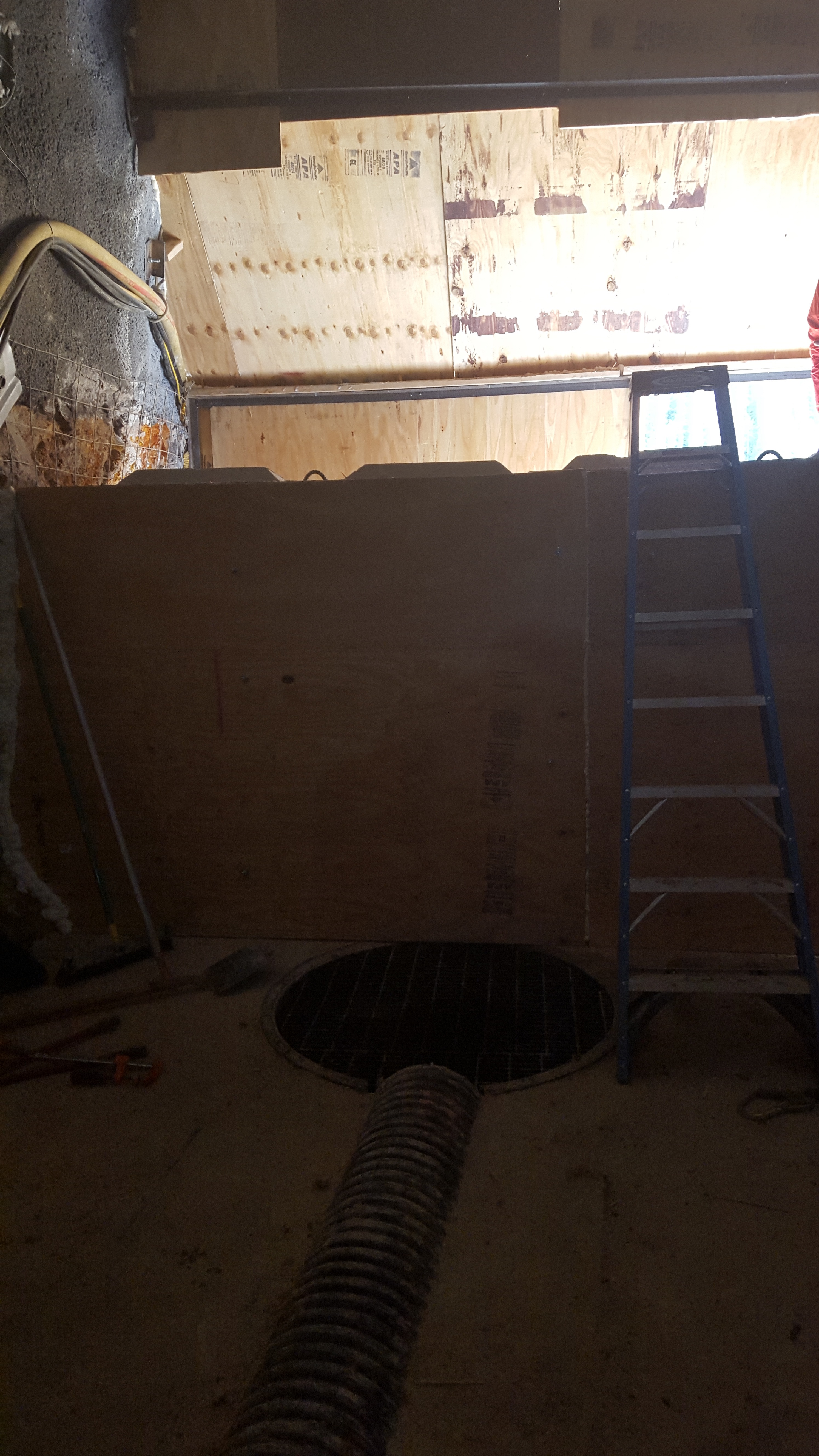 Adit sump between adit portal and “muck dam” inside the Gold King Mine adit.